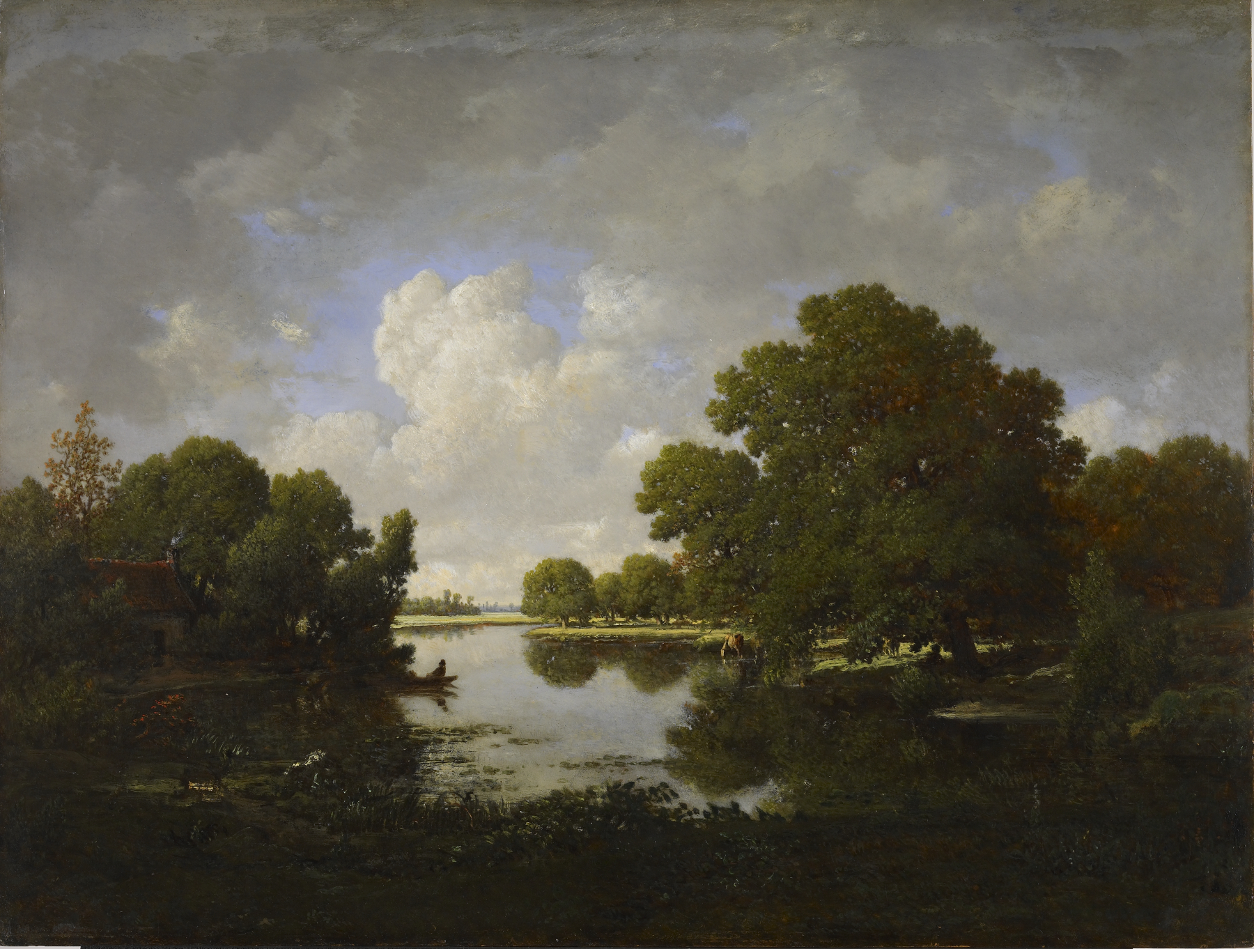 Traditionally, this painting was known as "Early Summer Afternoon" and was thought to represent a site in the Fontainebleau forest. However, it has since been identified as Bords de la Bouzanne, depicting a scene in the Berry district in central France, which was exhibited at the Paris Exposition Universelle (World's Fair) of 1867. While we know that the artist painted outdoors in the Berry region in 1842, this highly finished composition was likely done some years later.